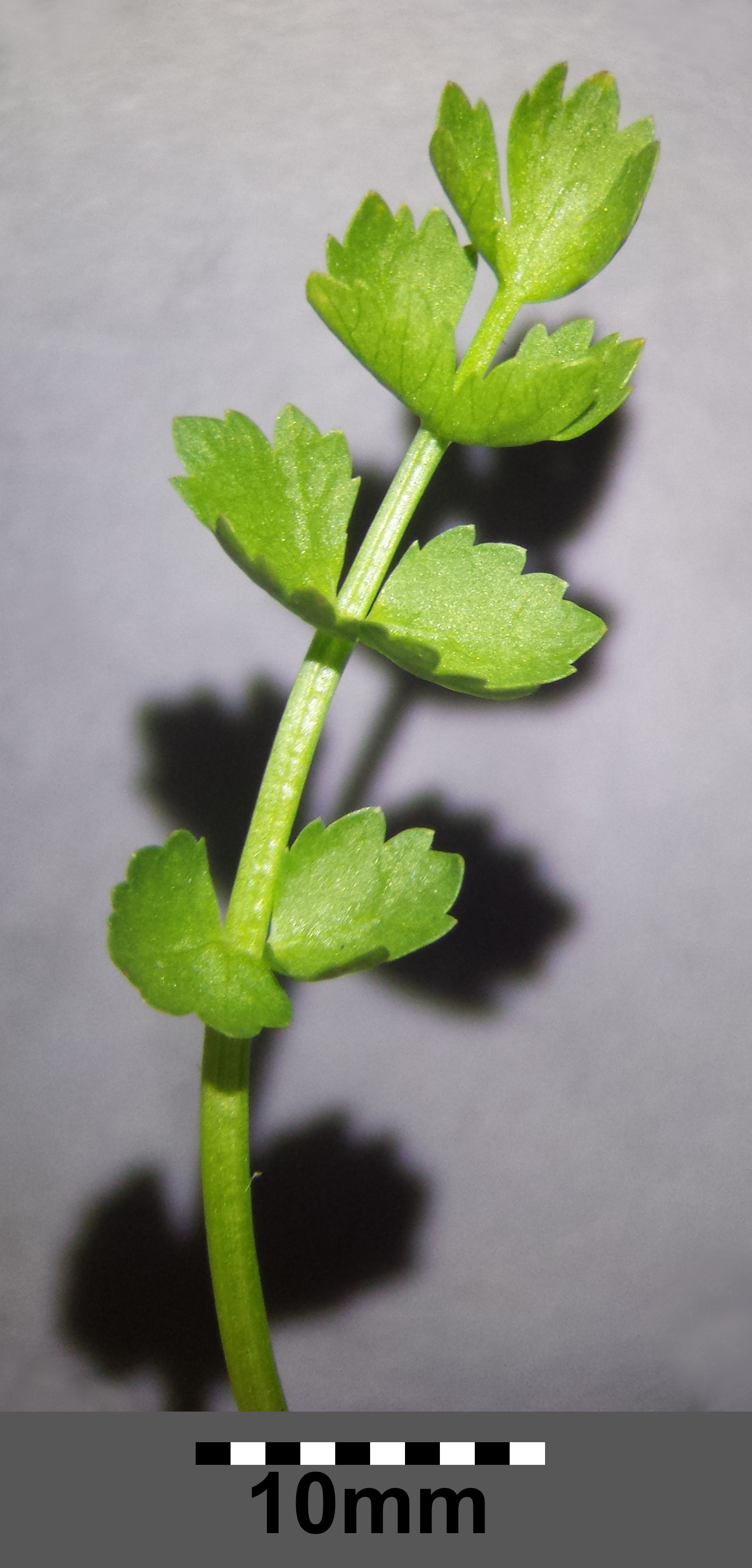 Leaf Taxonym: Helosciadium repens ss Fischer et al. EfÖLS 2008 ISBN 978-3-85474-187-9 Location: Donaupark, Vienna-Donaustadt - ca. 160 m a.s.l. Habitat: turf